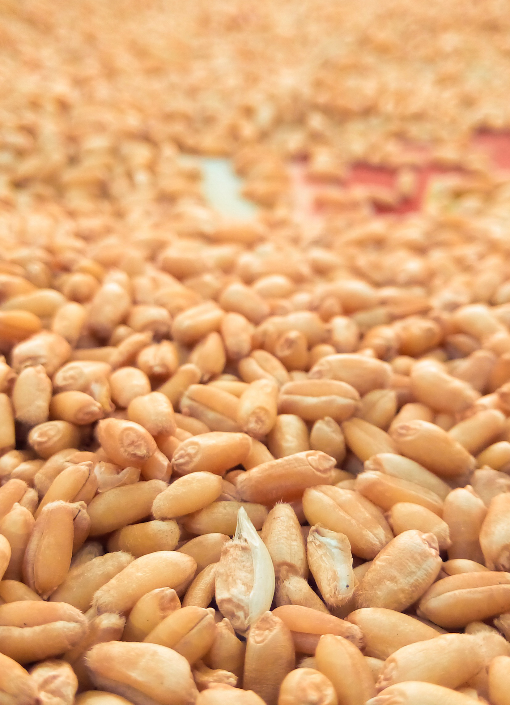 harvest time in punjab ਪੰਜਾਬੀ: vaddi